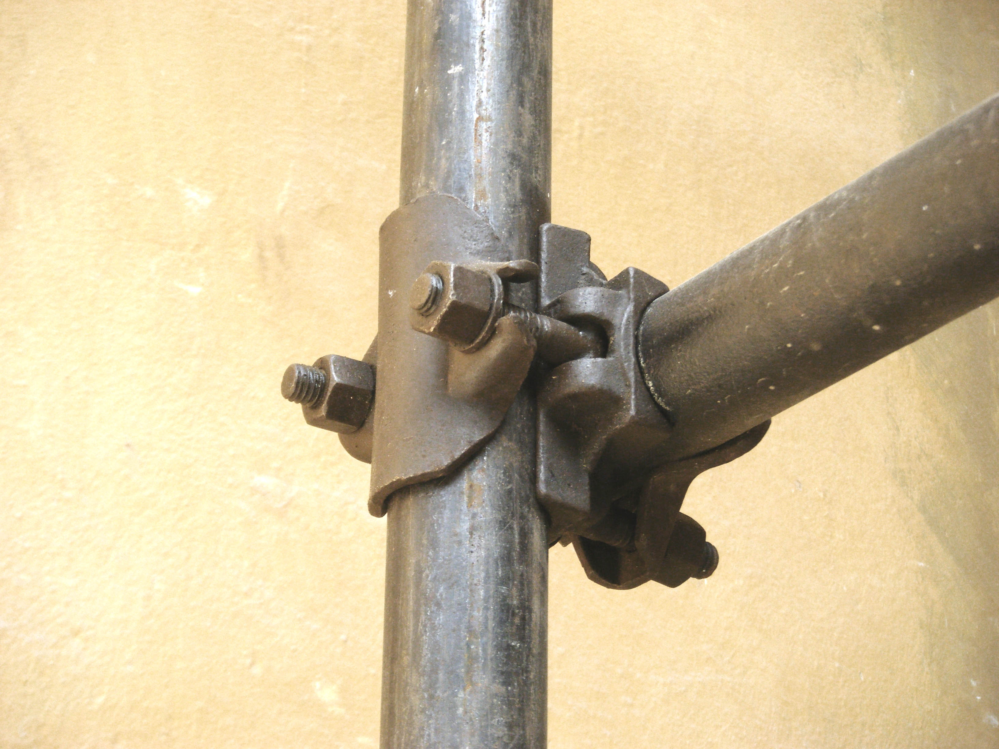 Junction between Tubes Innocenti in scaffolding